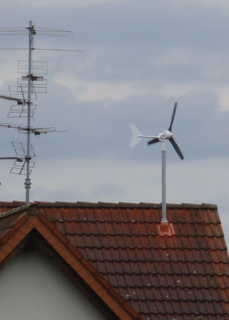 Small wind turbine on roof